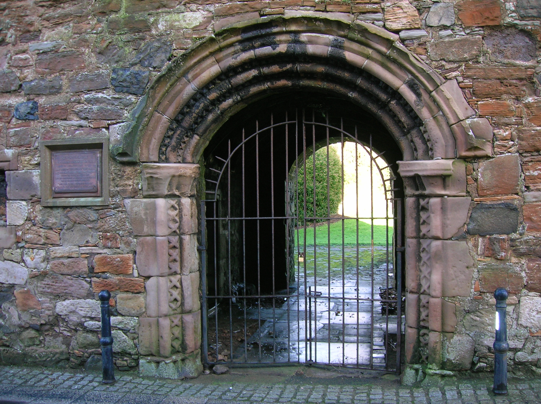 Seagate Castle entrance doorway, Irvine, North Ayrshire, Scotland